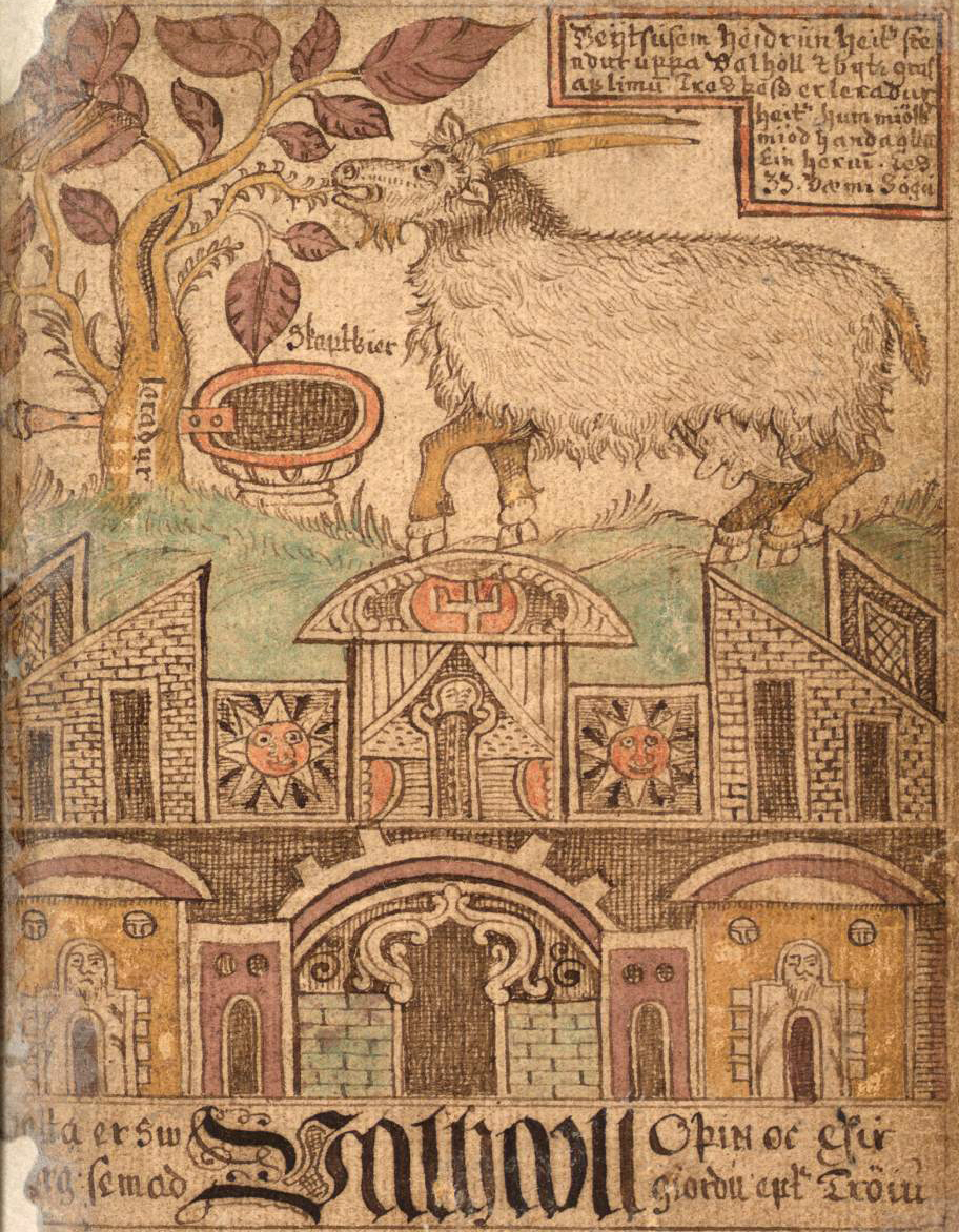 An illustration of the goat Heiðrún eating the foliage of the tree Læraðr atop of Valhöll, from an Icelandic 18th century manuscript.